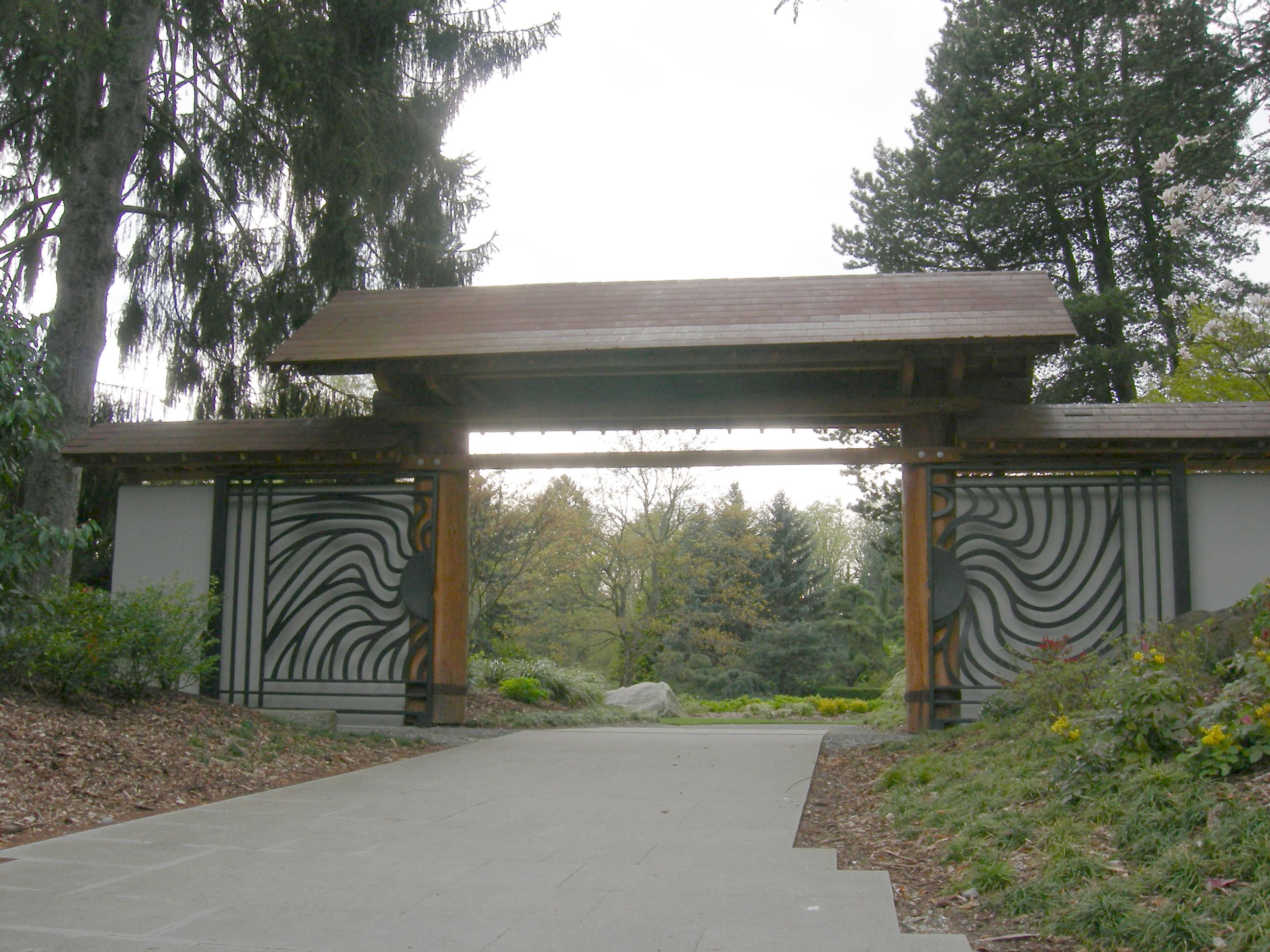 Formal gate, designed by Gerard Tsutakawa. Kubota Garden, Rainier Beach, Seattle, Washington.